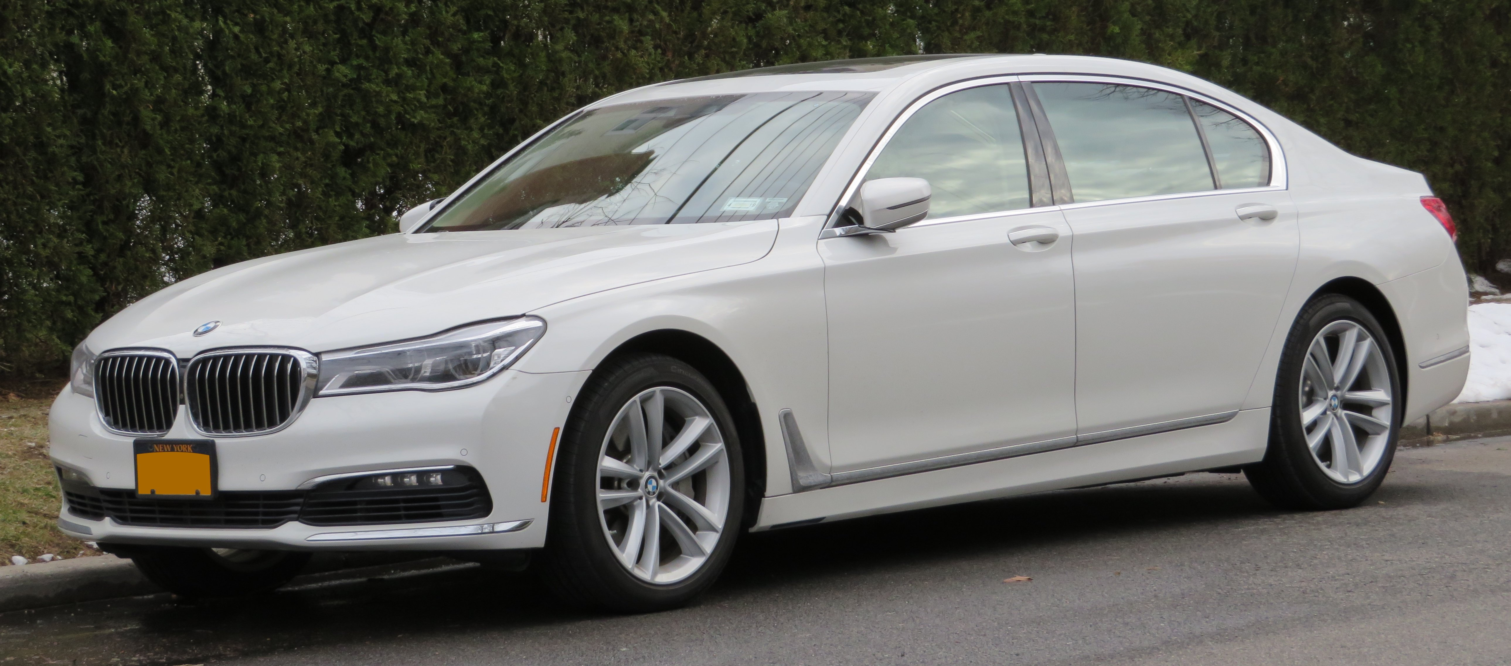 In Queens, New York